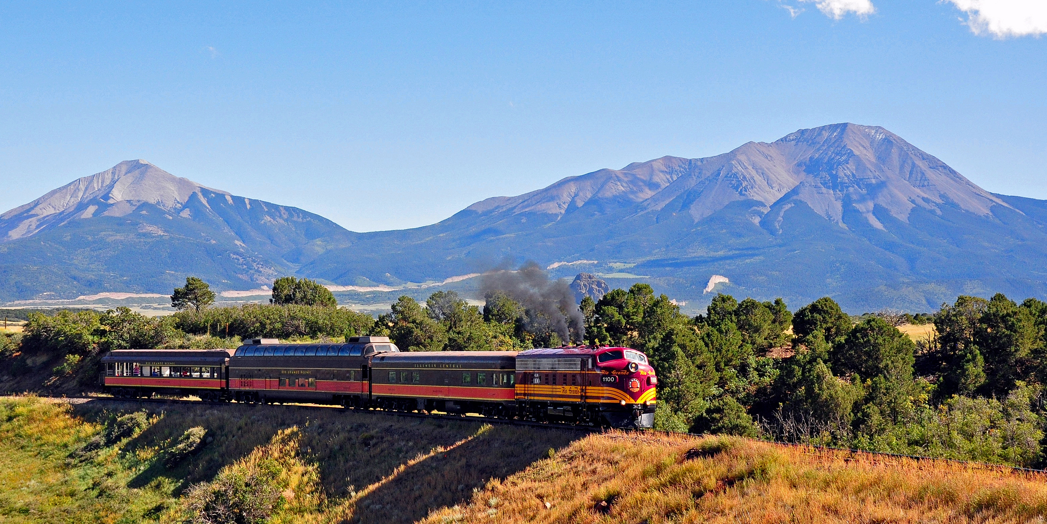 Rio Grande Scenic Railroad - La Veta to Alamosa, Colorado with East Spanish Peak at left and West Spanish Peak at right